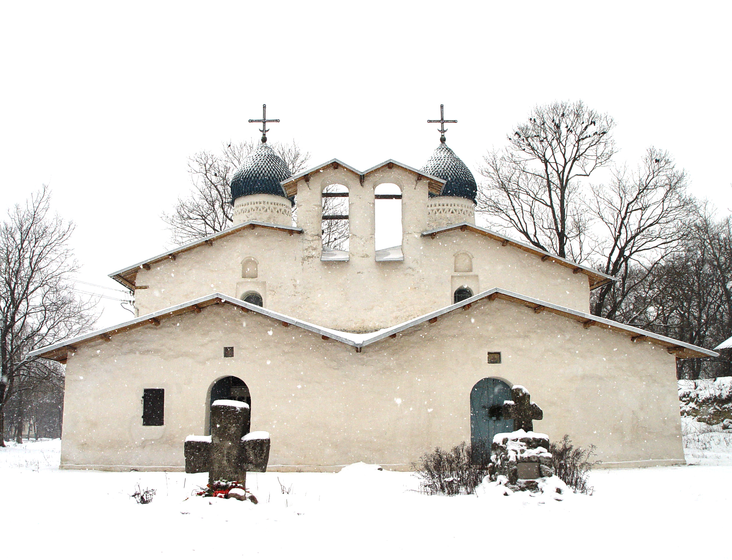 Church of the Protection of the Virgin in Pskov